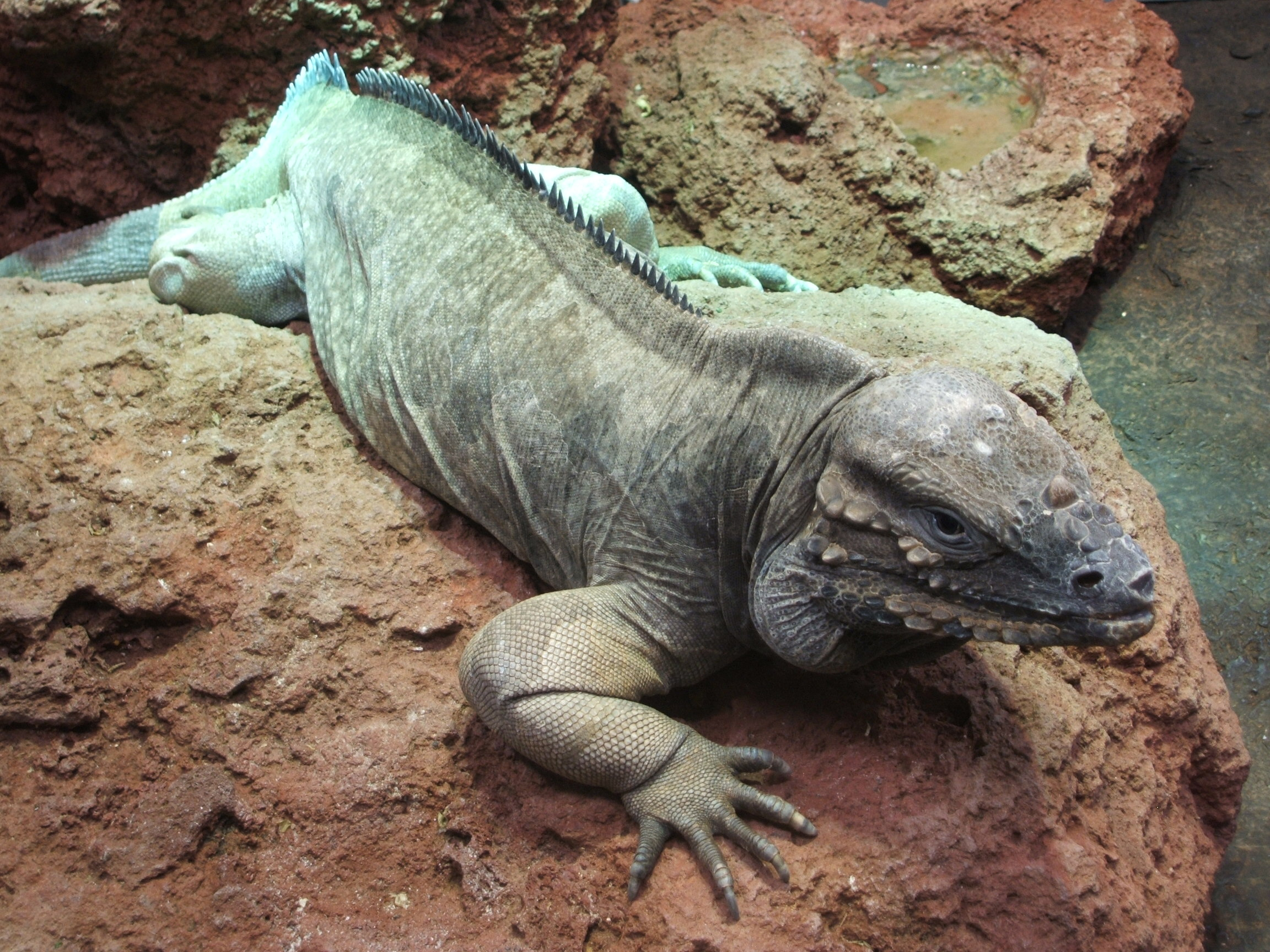 Rhinoceros iguana (Cyclura cornuta) at Boston Museum of Science